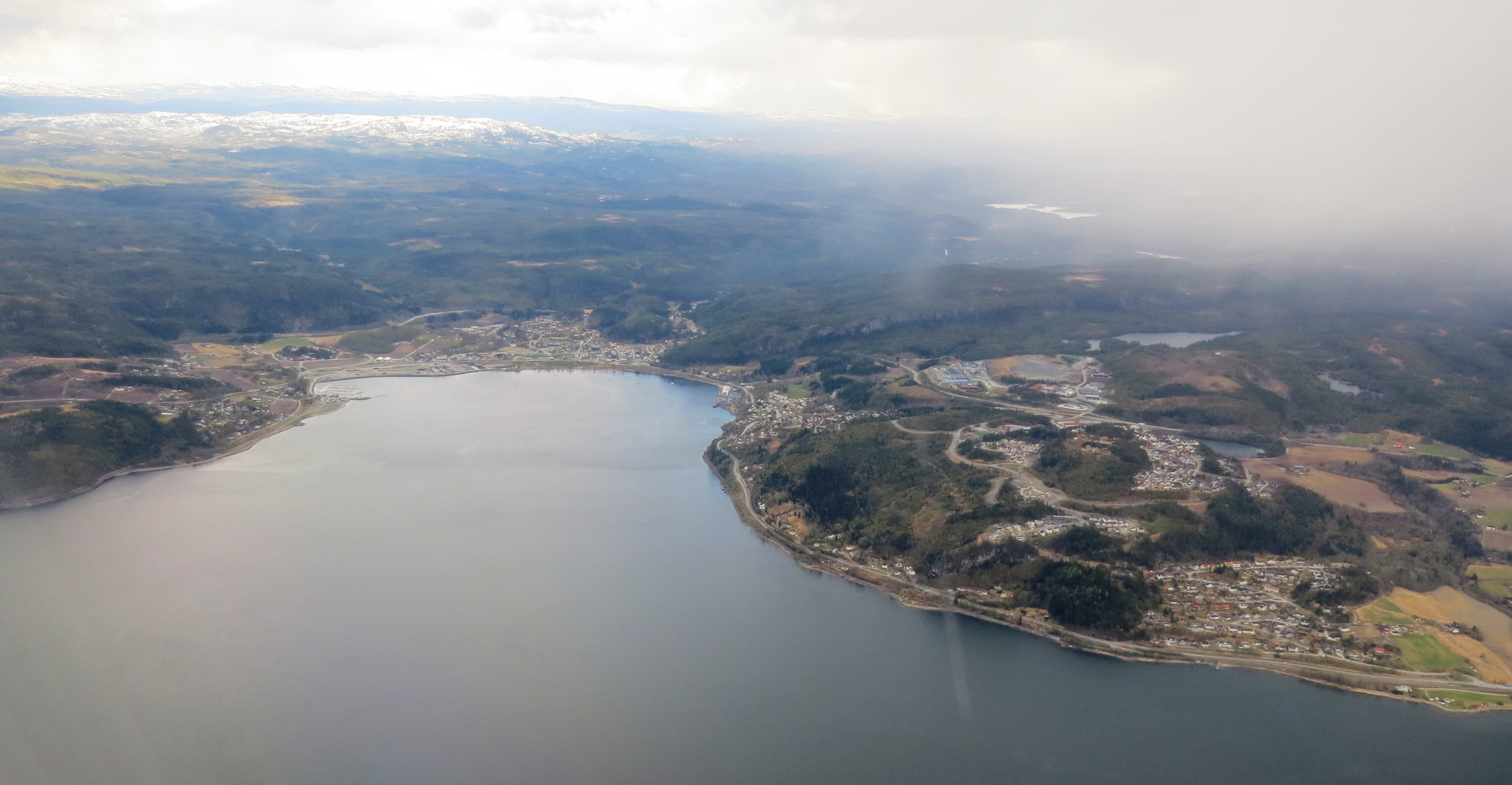 Image from the municipality of Malvik, along the Trondheim Fjord, just east of Trondheim - Norway.